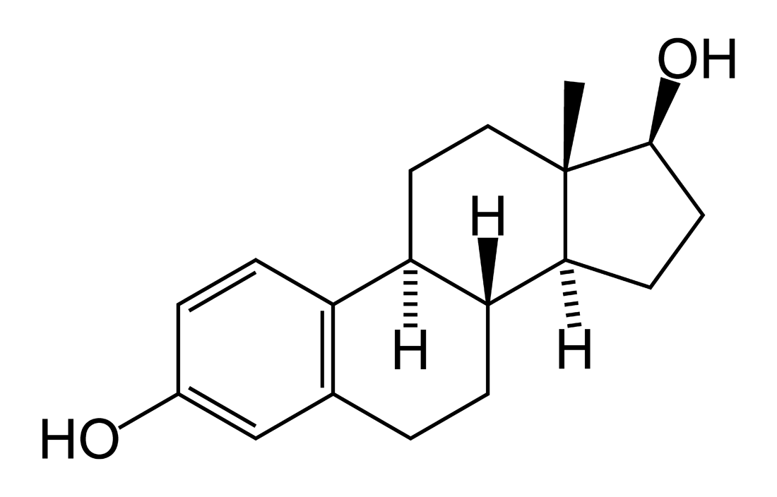 Chemical Structure of the 1,3,5[10]-estratriene-3,17β-diol (β-estradiol).